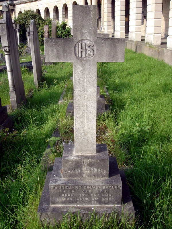 Steuart Bayley funerary monument, Brompton Cemetery, London